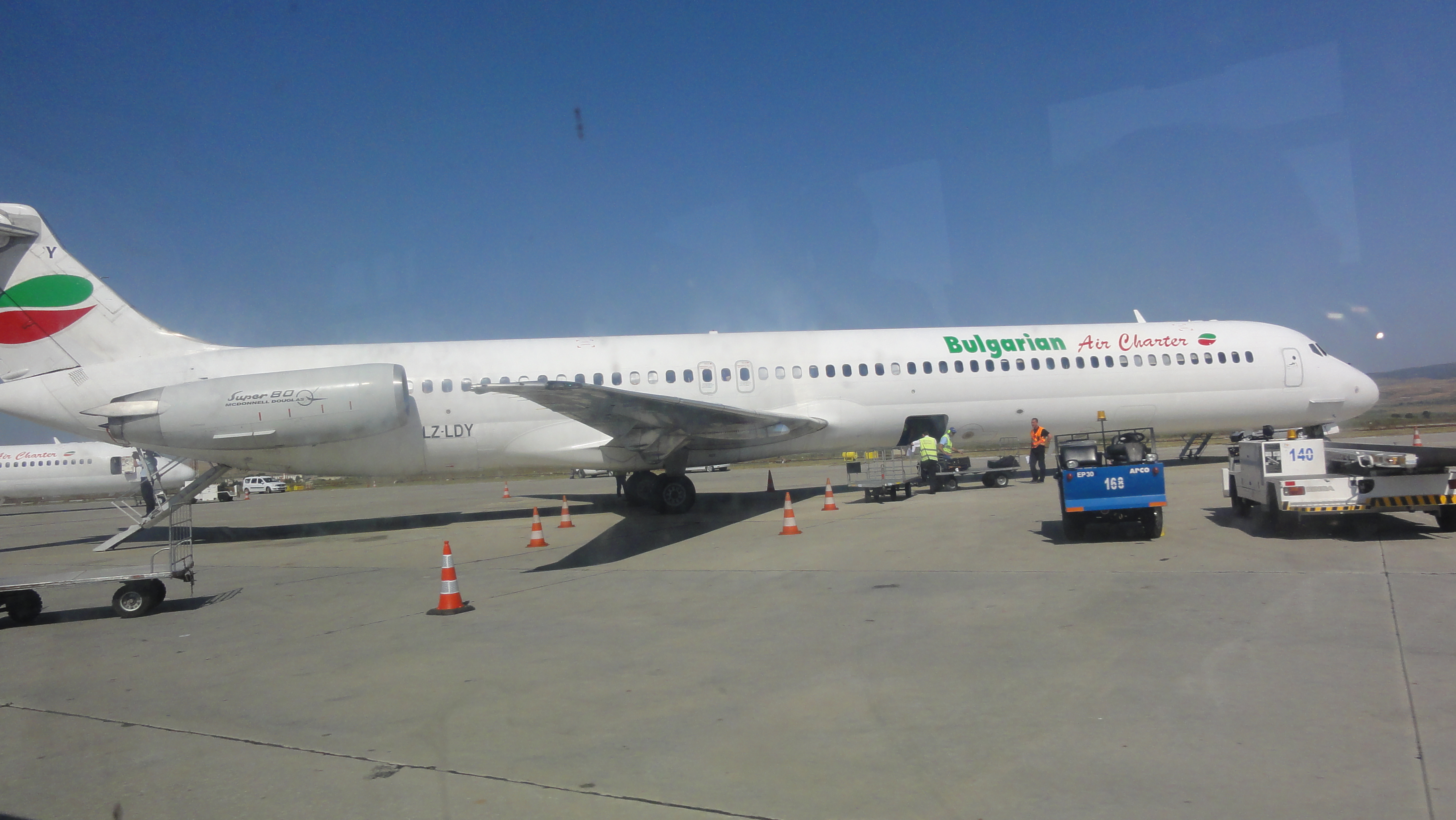 McDonnel Douglas MD82 Bulgarian Air Charter at Bourgas Airport.